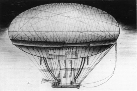 Airship designed by French engineer and general Jean-Baptiste Marie Meusnier de La Place (1754-1793)